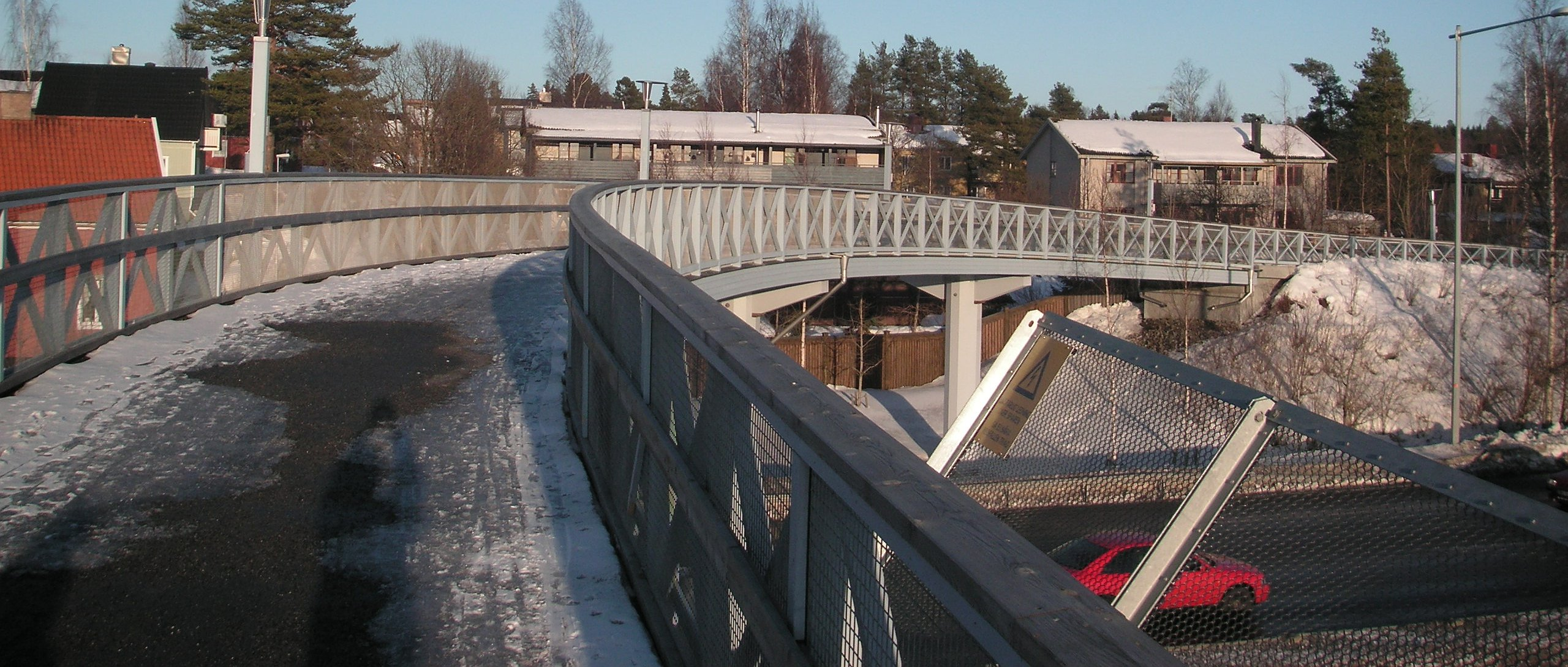 Walking bridge between neighborhood "Gimonäs" and shopping centre "Strömpilen" in Umeå, Sweden.